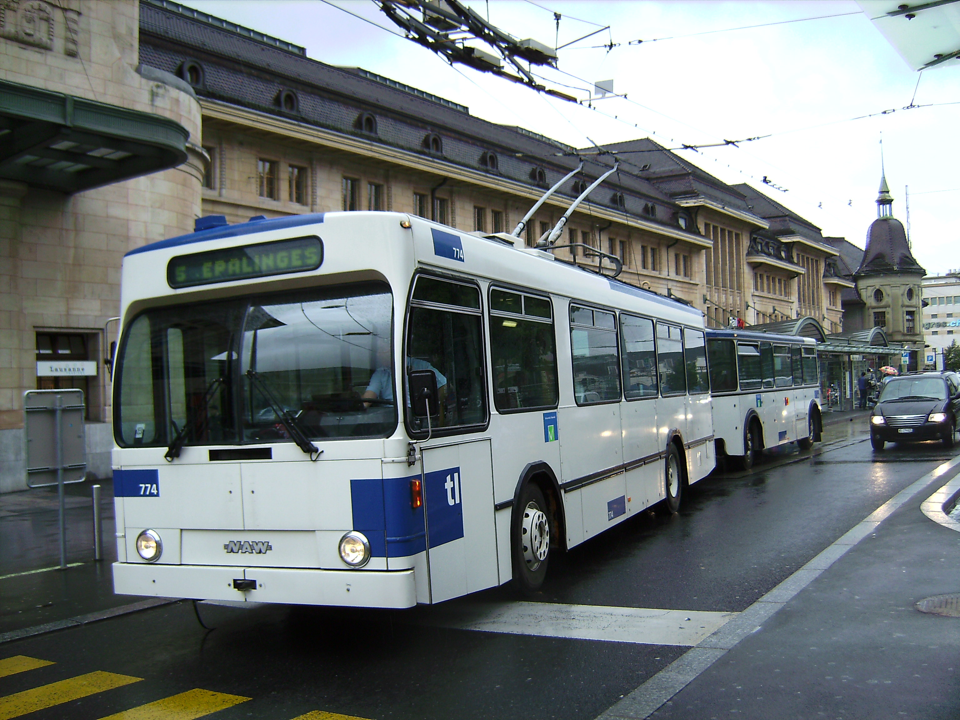 Trolleybus in Lausanne, Switzerland. Photo taken in front of the train station. Trolleybus line 5, trolleybus No 774